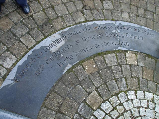 Inscription, Lifford. It is located here 1402280 and reads, "Erected to commemorate the work of former members and employees of Lifford County Council in the service of the county"